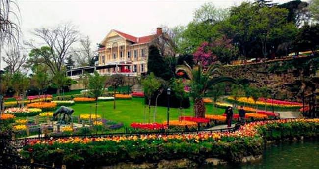 Emirgan Korusu